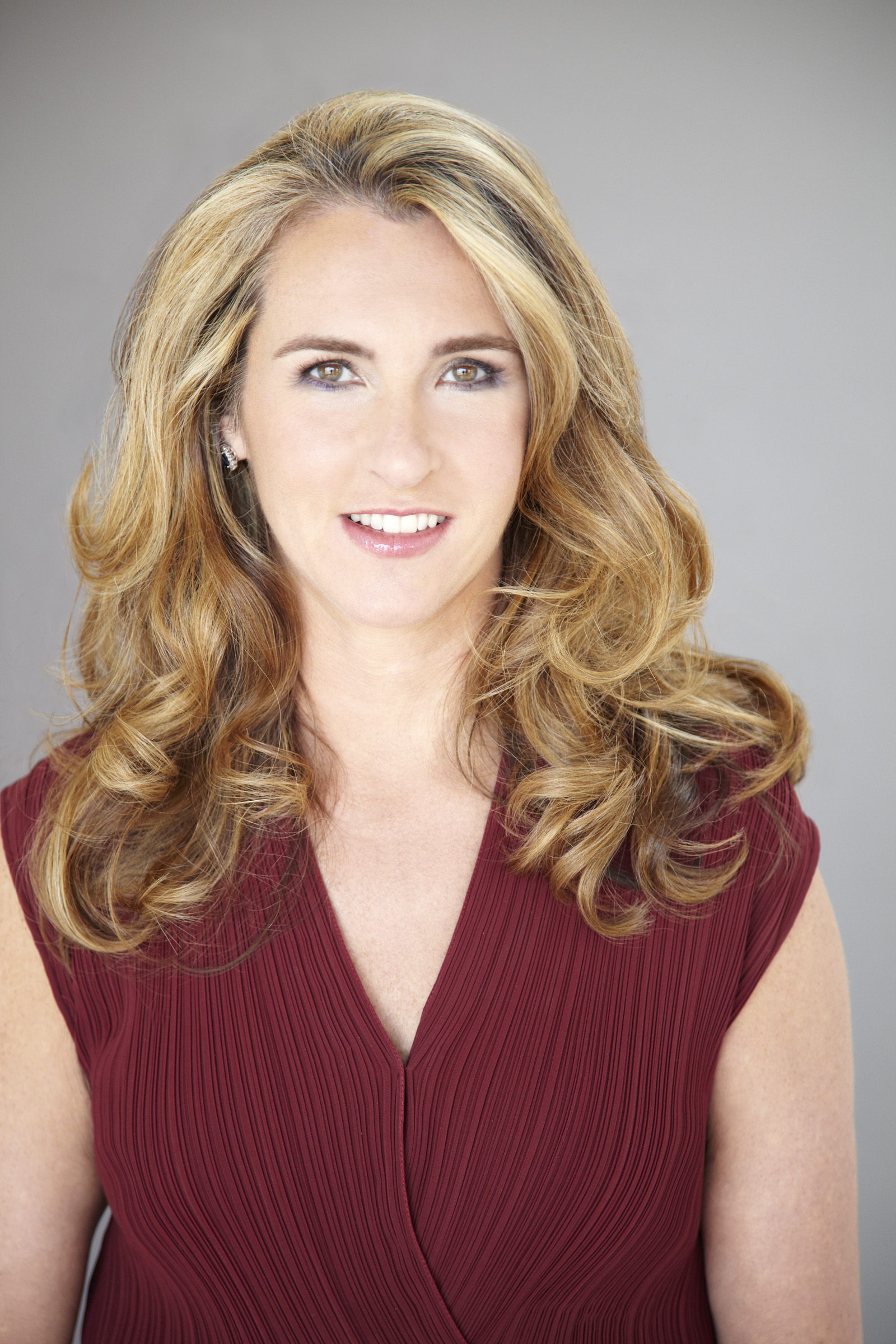 Profile photo